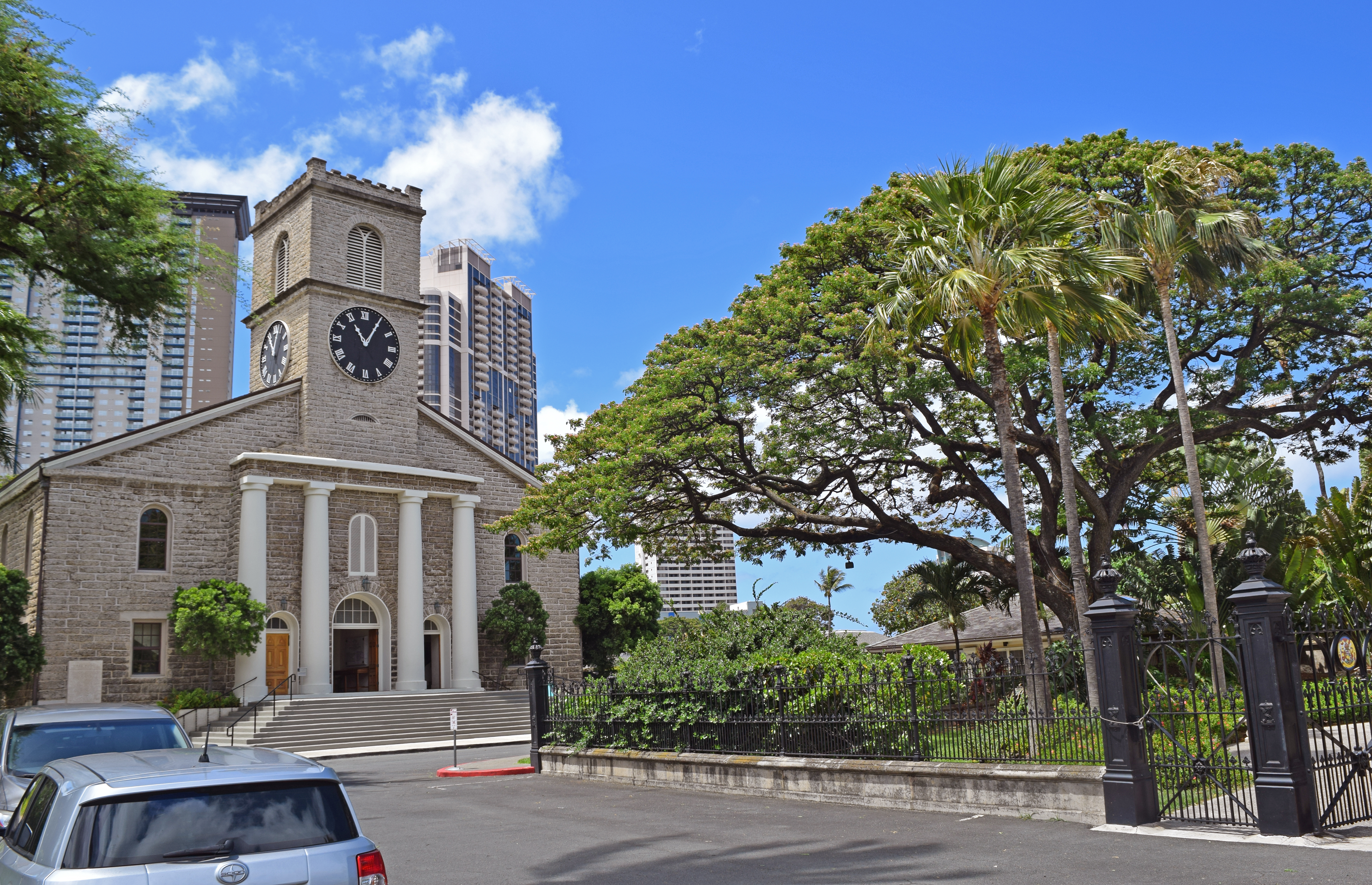 Kawaiahao Church, Honolulu, Hawaii